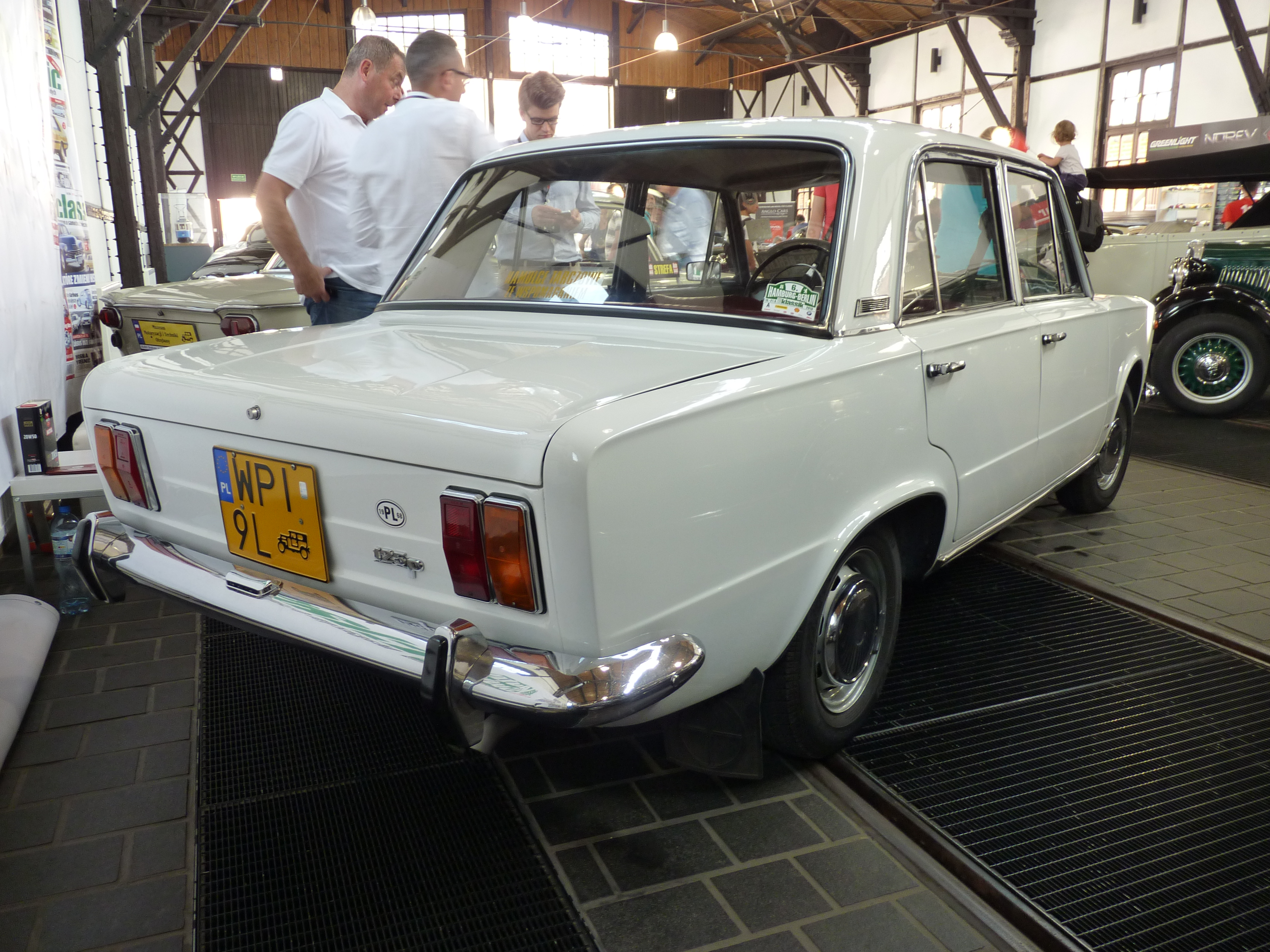 Classic Moto Show 2014 in Kraków.